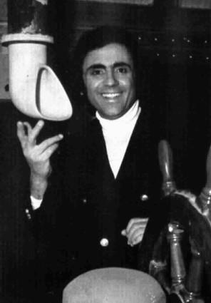 Italian actor Toni Santagata, backstage of TV-show Il dirigibile